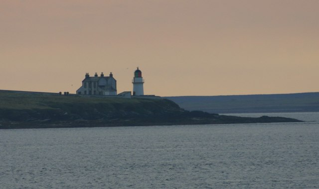 Saeva Ness Lighthouse Saeva Ness lighthouse on Helliar Holm looks out across The String to the Head of Work on Mainland, Orkney.